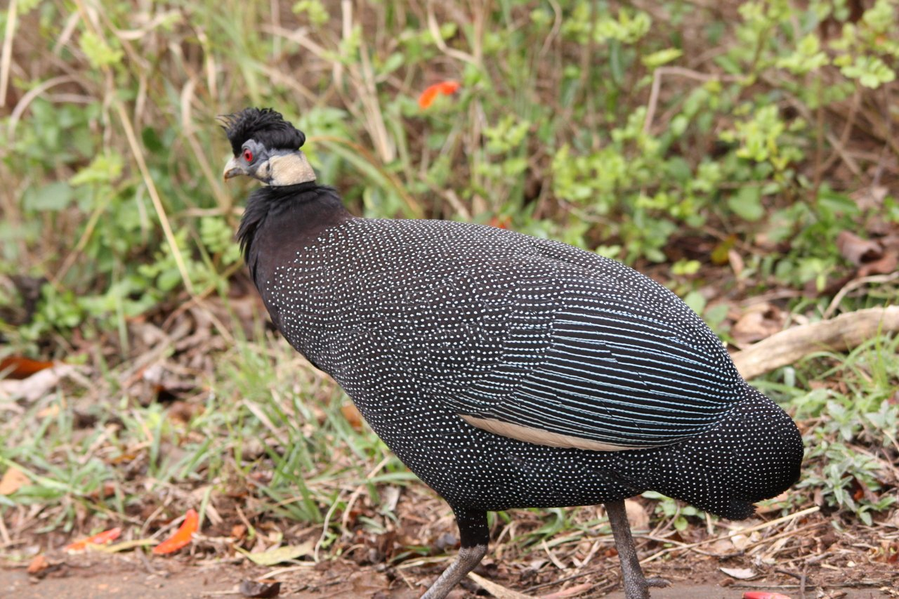 A Crested Guineafowl at Hluhluwe-Umfolozi Game Reserve, South Africa.